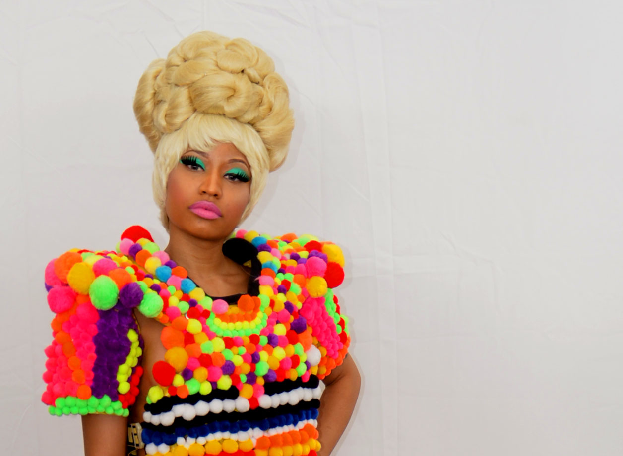 Nicki Minaj by Photographer Christopher Macsurak.